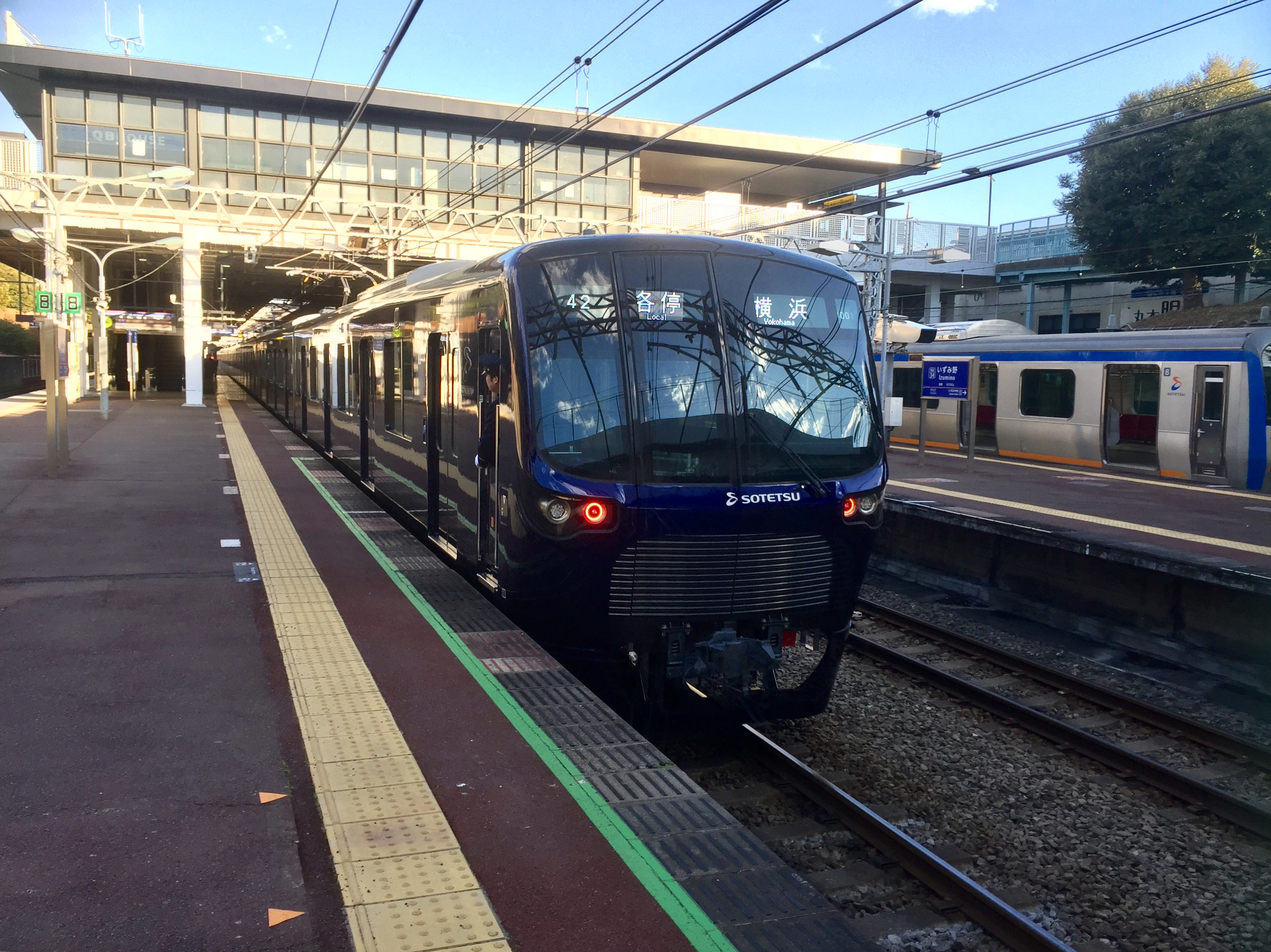 Sotetsu 20000 series EMU set 20101 at Izumino Station in Kanagawa Prefecture, Japan